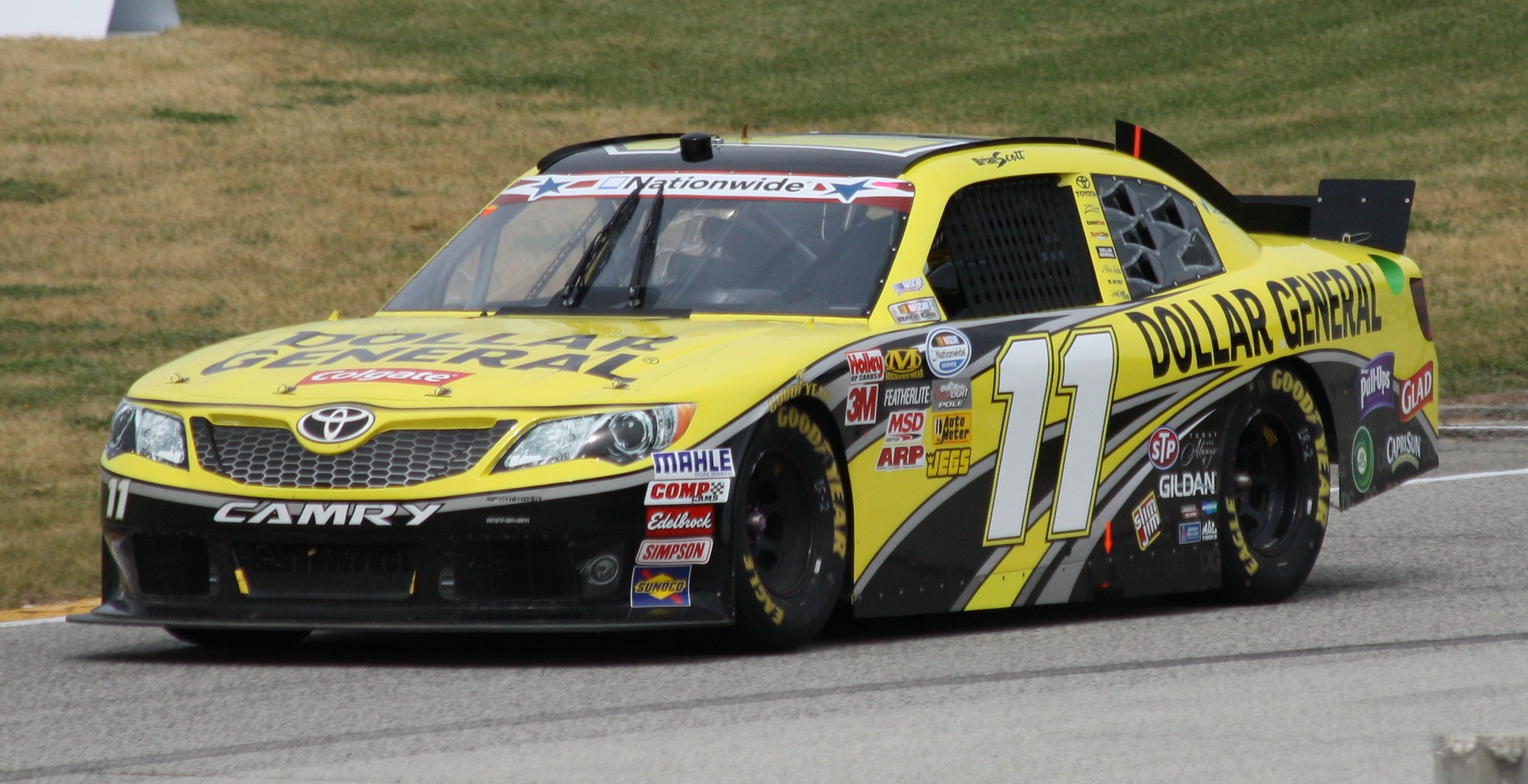 Brian Scott NASCAR Nationwide Series car at Road America at the 2012 Sargento 200.